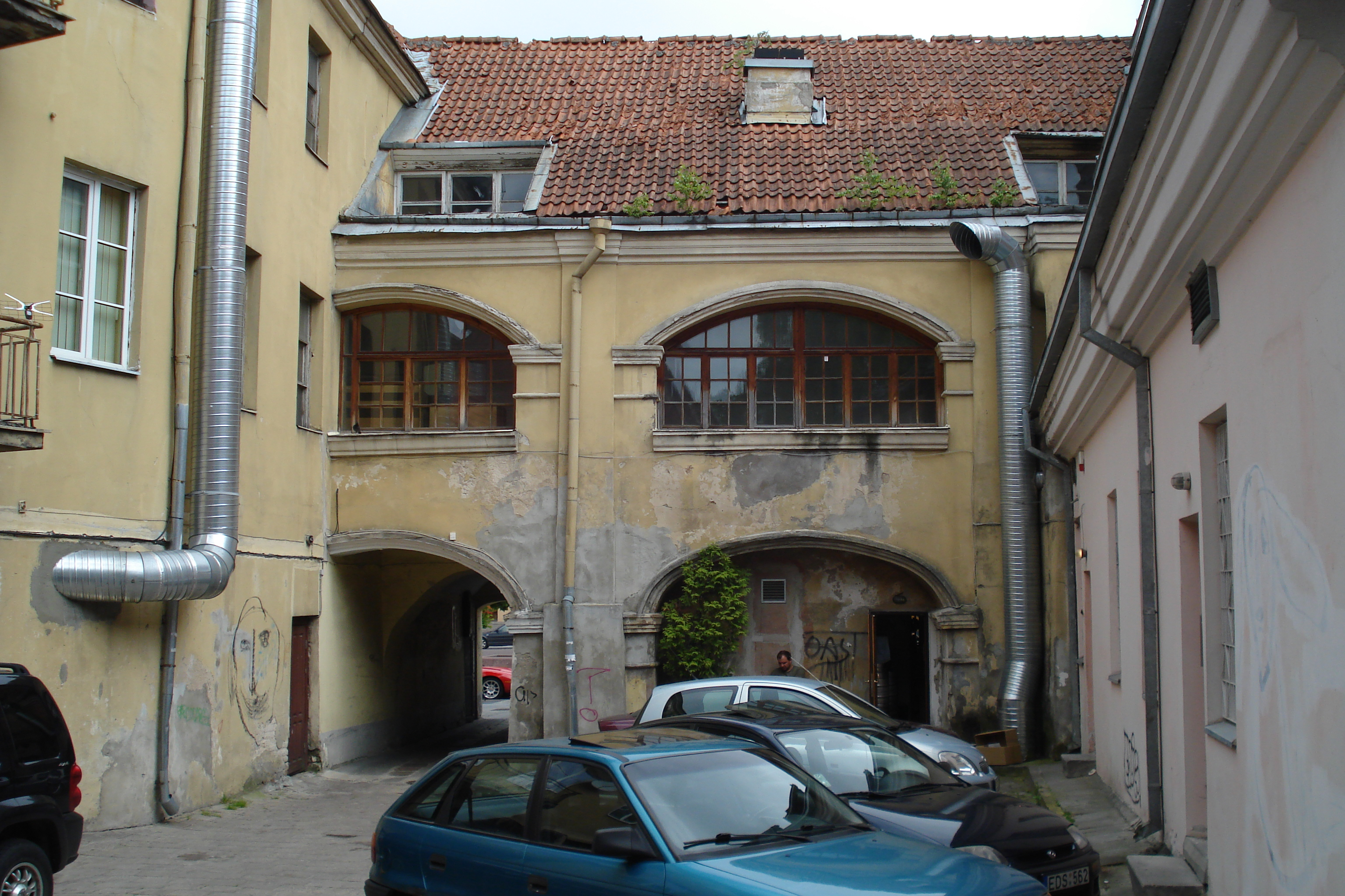 The old gallery with the arcade in the inner yard of Bildziukiewicz's House (Didžioji g. 19) in Vilnius